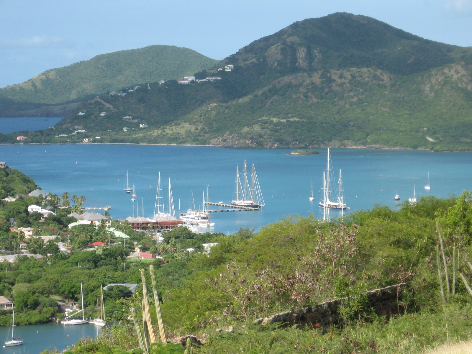 Antigua, English Harbour